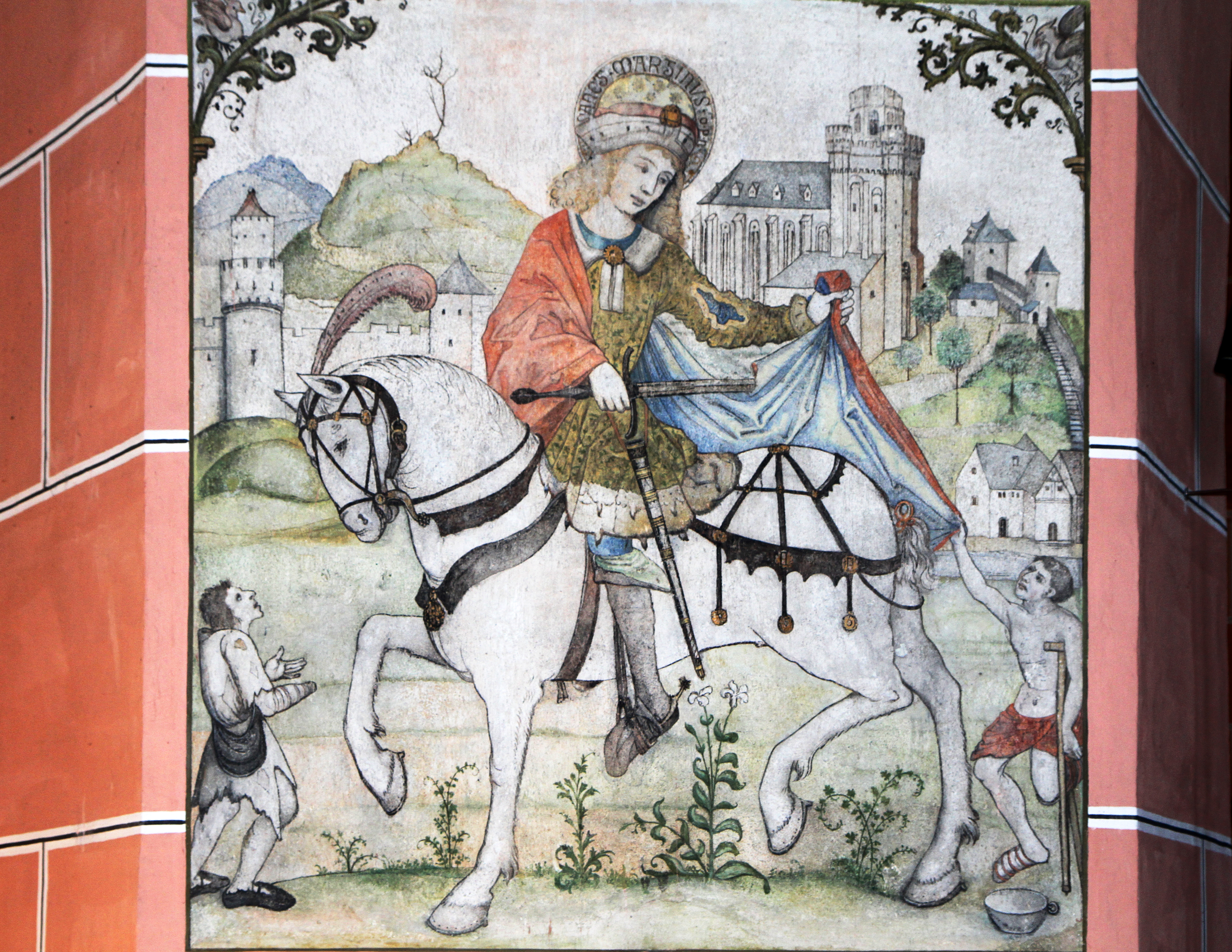 Interior of the old Catholic Parish Church Our Lady in Oberwesel, Germany